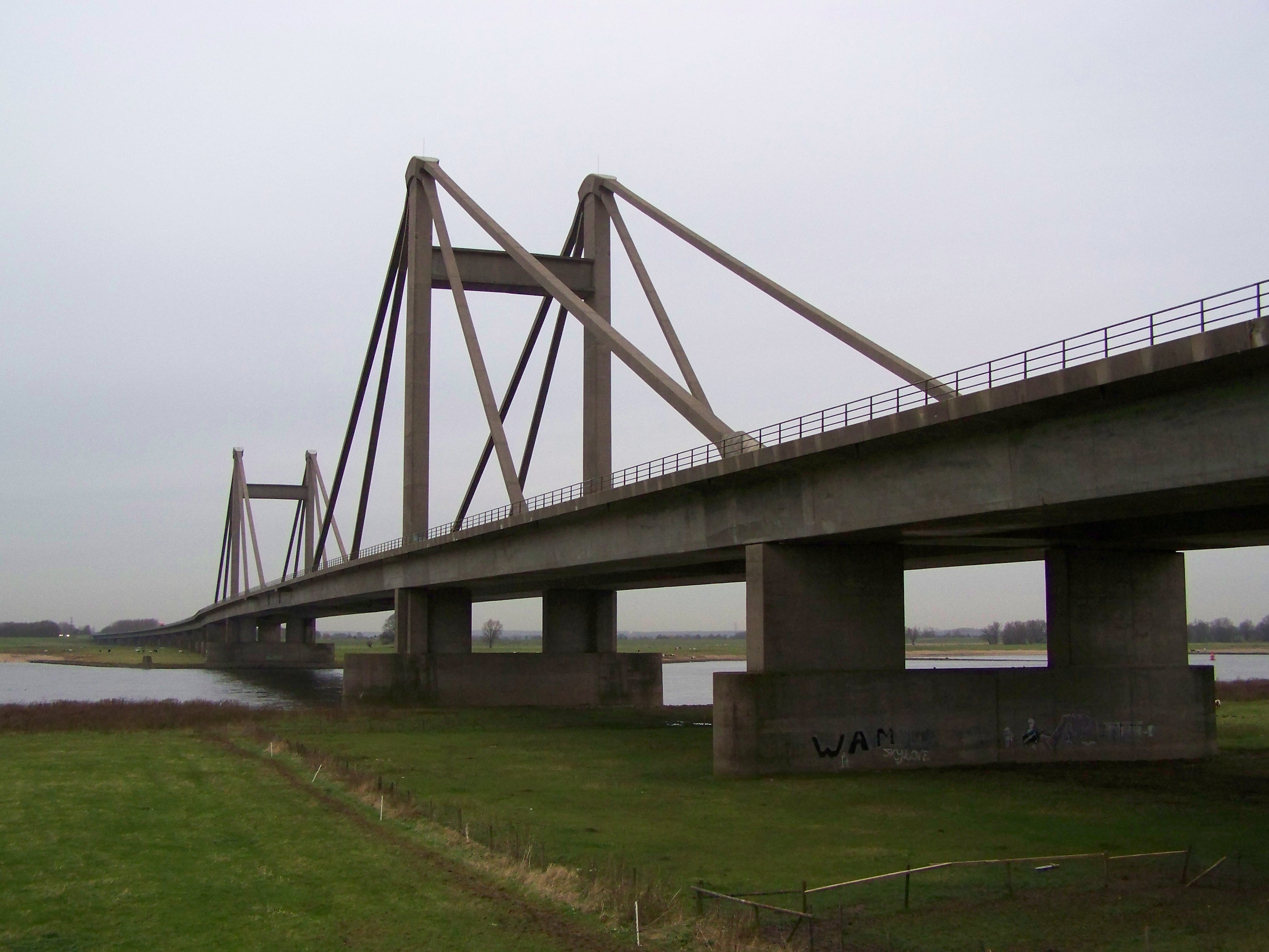 The Prins Willem-Alexander bridge, as seen from the west.